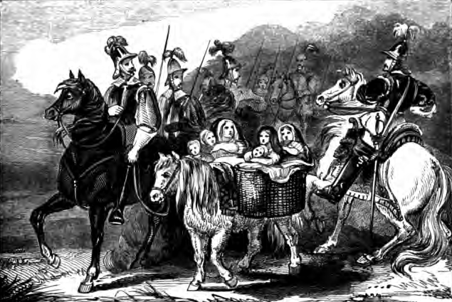 "Blackadder's children ejected from the manse" From the 1843 book Witnesses for the Truth in the Church of Scotland